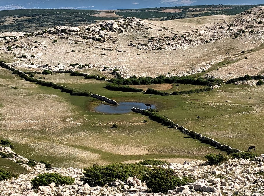 Sinkhole close to Obzova summit,Krk, Croatia